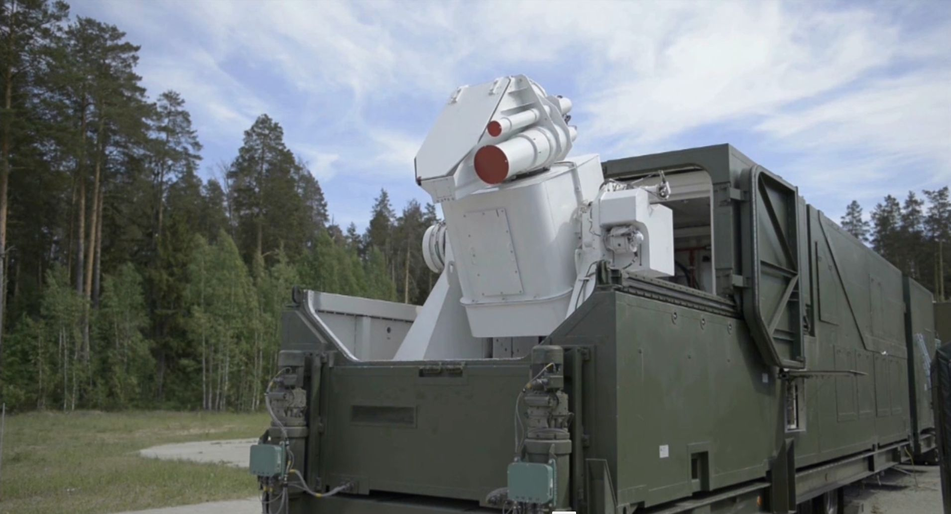 A screenshot from the Presidential Address to the Federal Assembly featuring the new Laser Weapon system "Peresvet"